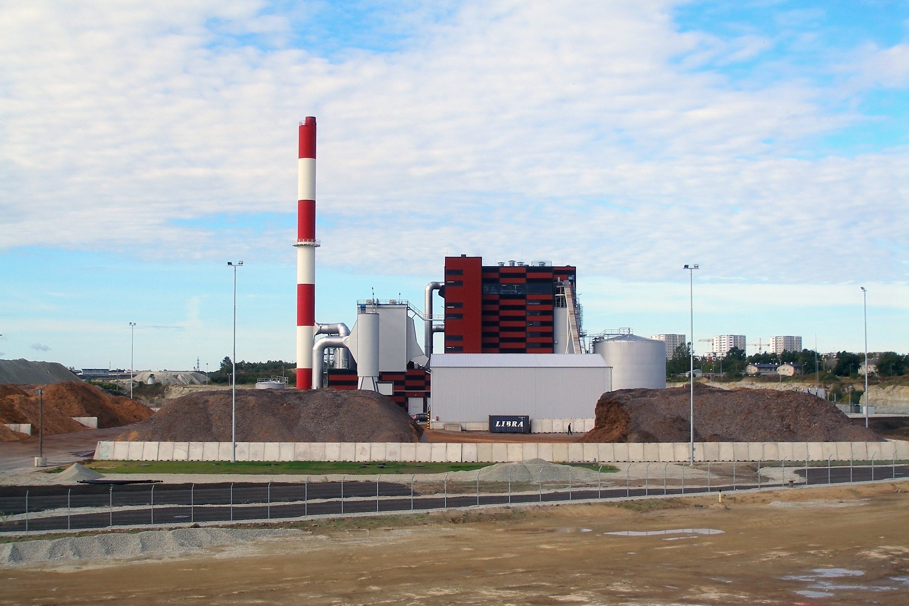 Väo power plant in Tallinn, Estonia - combined heat and power station using mainly woodchips for fuel.